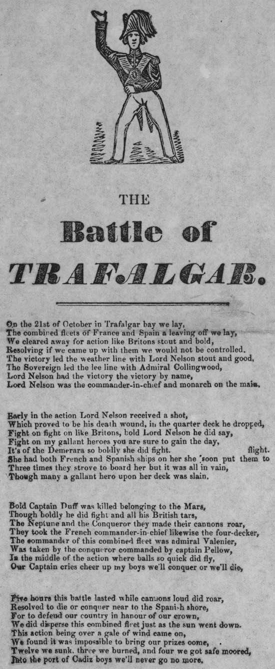 Broadside entitled The Battle of Trafalgar